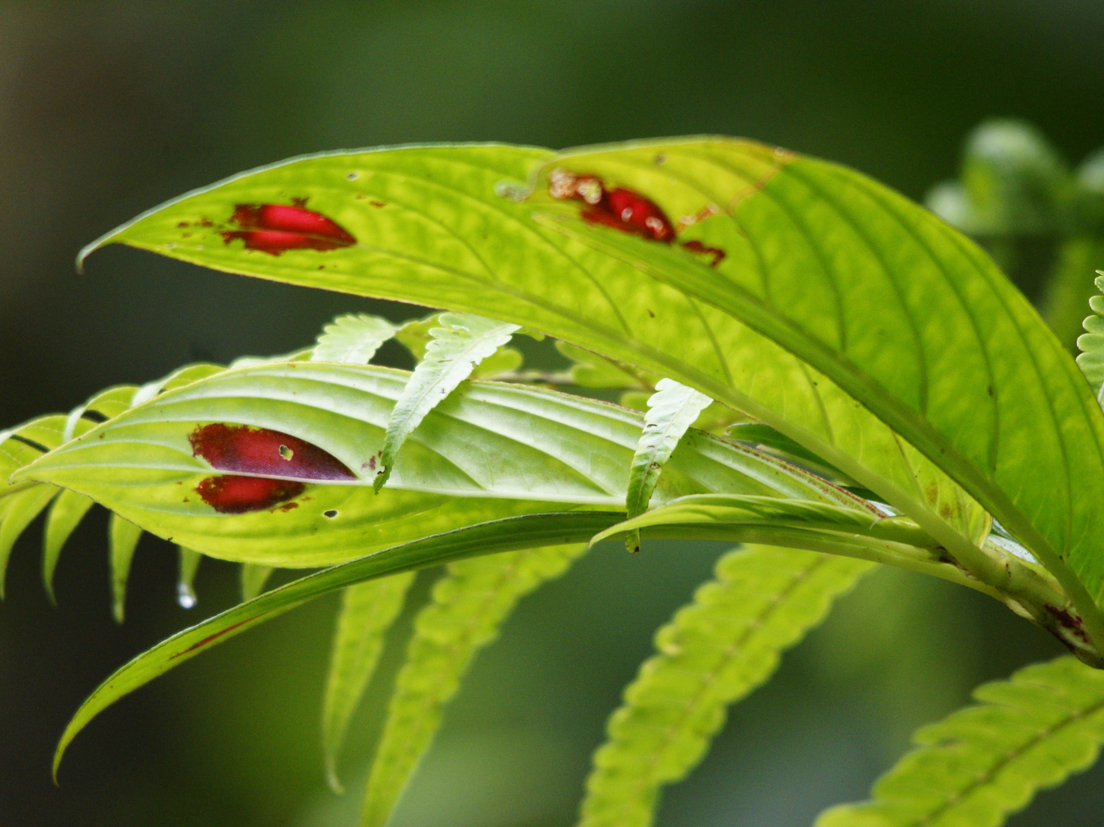 Foliage at Rara Avis, near Las Horquetas, Costa Rica.